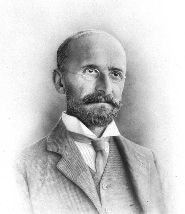 William_Applegate_Gullick (1858-1922) NSW Publisher and stamp inspector